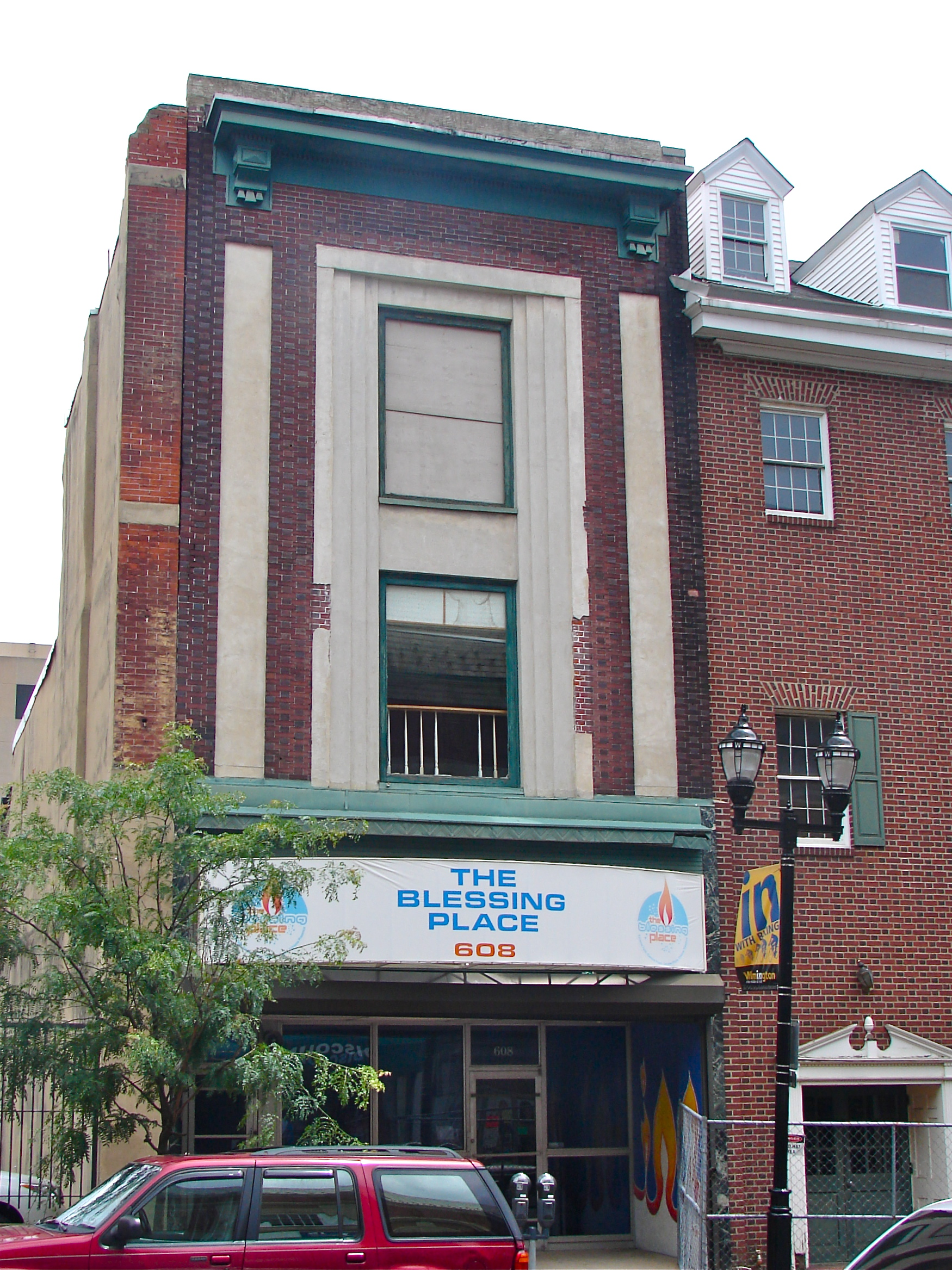 Charles Schagrin Building on the NRHP since January 30, 1985. At 608 N. Market St., Wilmington, New Castle County, Delaware. Next door to 606 also on the NRHP